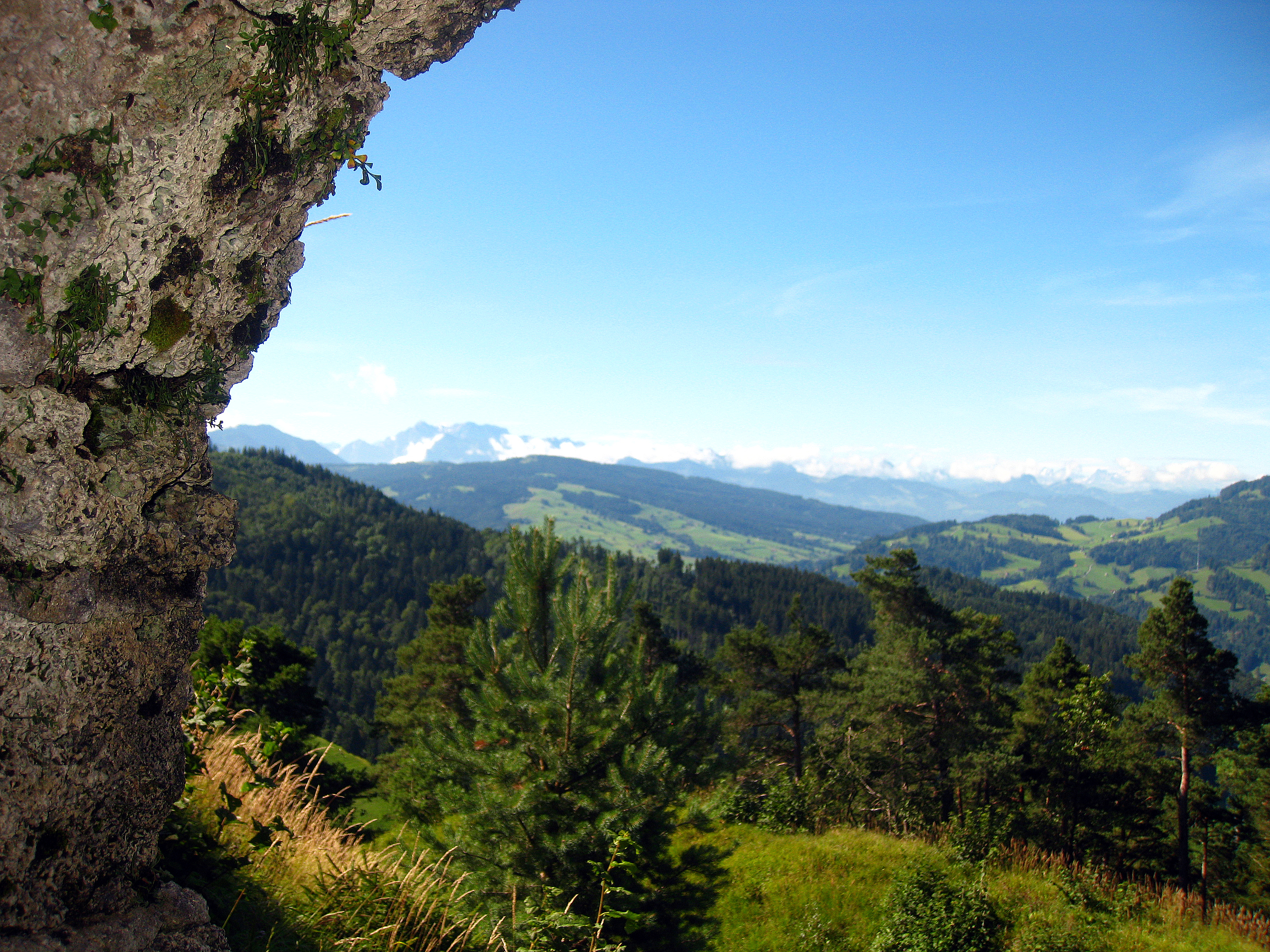 View from the ruin Neutoggenburg to the alps of Berne